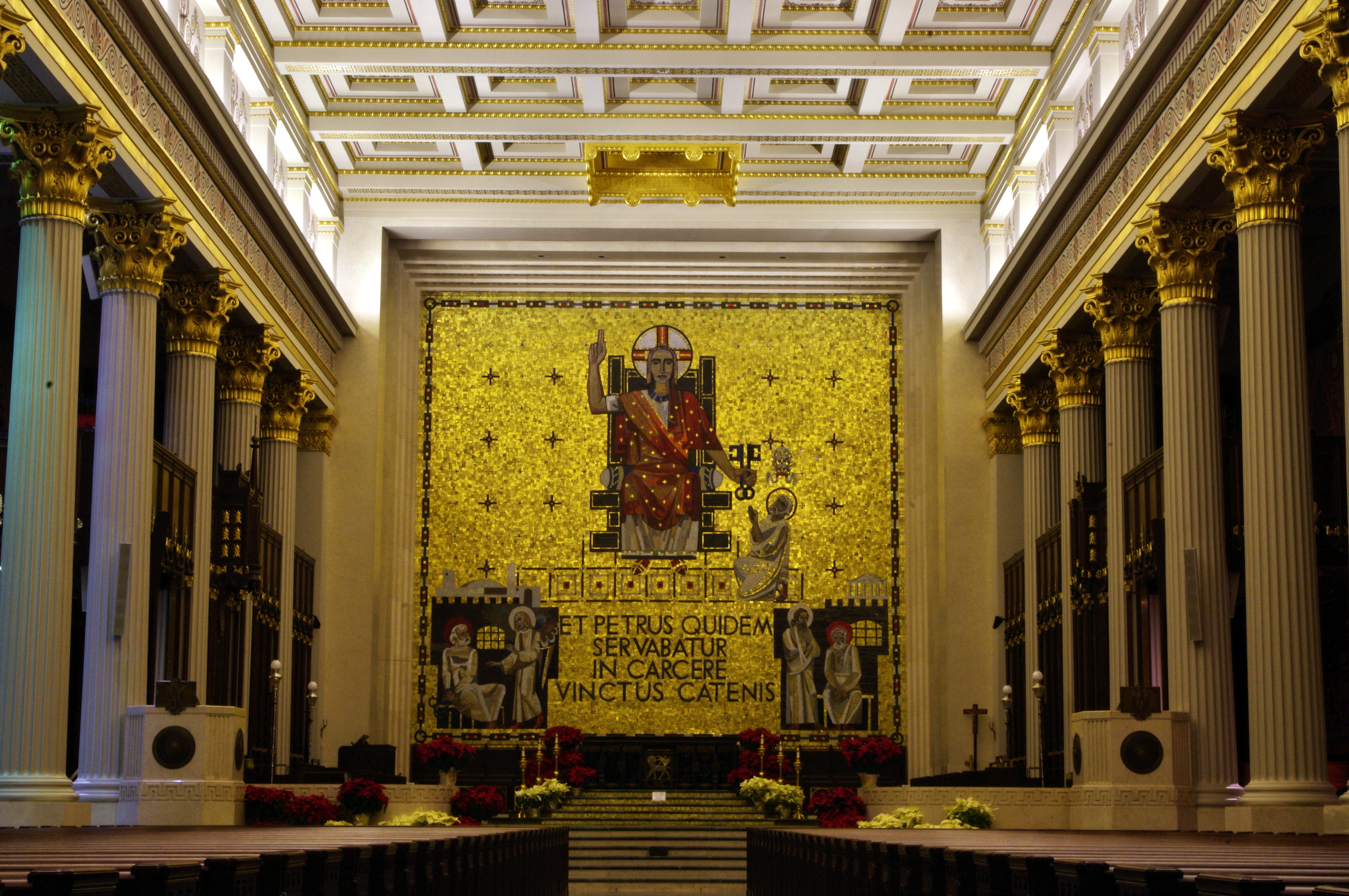 Saint Peter in Chains Cathedral (Cincinnati, Ohio) - interior, sanctuary & mosaic